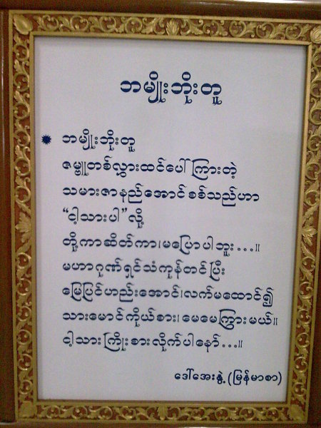 poem မြန်မာဘာသာ: "ဘမျိုးဘိုးတူ" ဘမျိုးဘိုးတူ ဇမ္ဗူတစ်လွှာထင်ပေါ်ကြားတဲ့ သမားဇာနည်အောင်စစ်သည်ဟာ "ငါ့သားပါ"လို့ တို့ကာဆိတ်ကာ၊ မပြောပါဘူး...။ မဟာဂုဏ်ရှင်သံကုန်တင်ပြီး မြေပြင်ဟည်းအောင်၊ လက်မထောင်၍ သားမောင်ကိုယ်စား၊ မေမေကြွားမယ်။ ငါ့သားကြိုးစားလိုက်ပါနော်...။